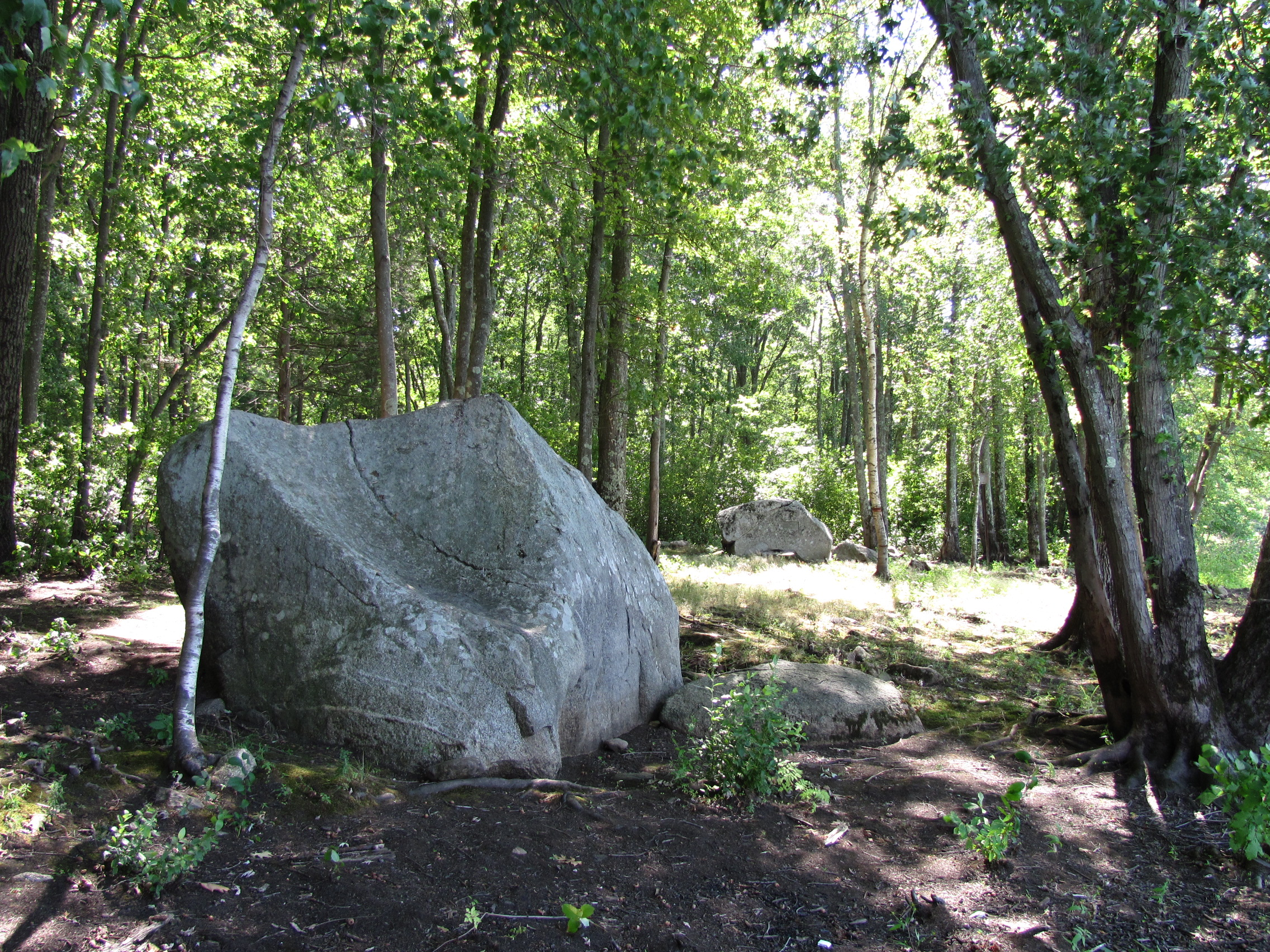 Two Brothers Rocks, Bedford Massachusetts - Dudley Rock foreground left, Winthrop Rock background center